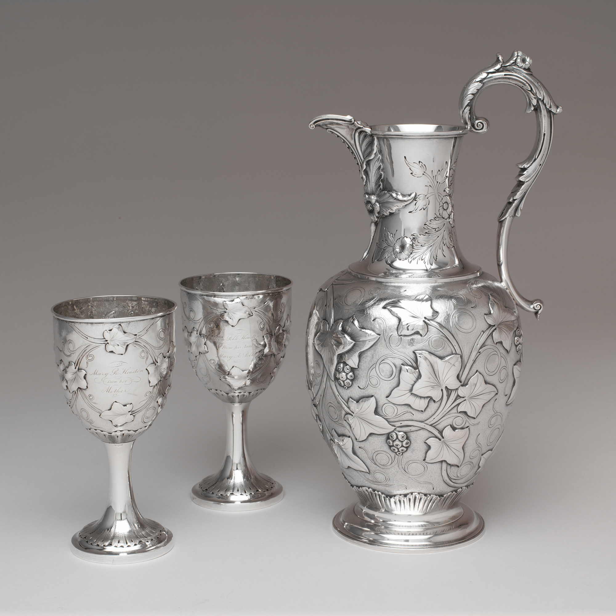 American; Goblet; Silver